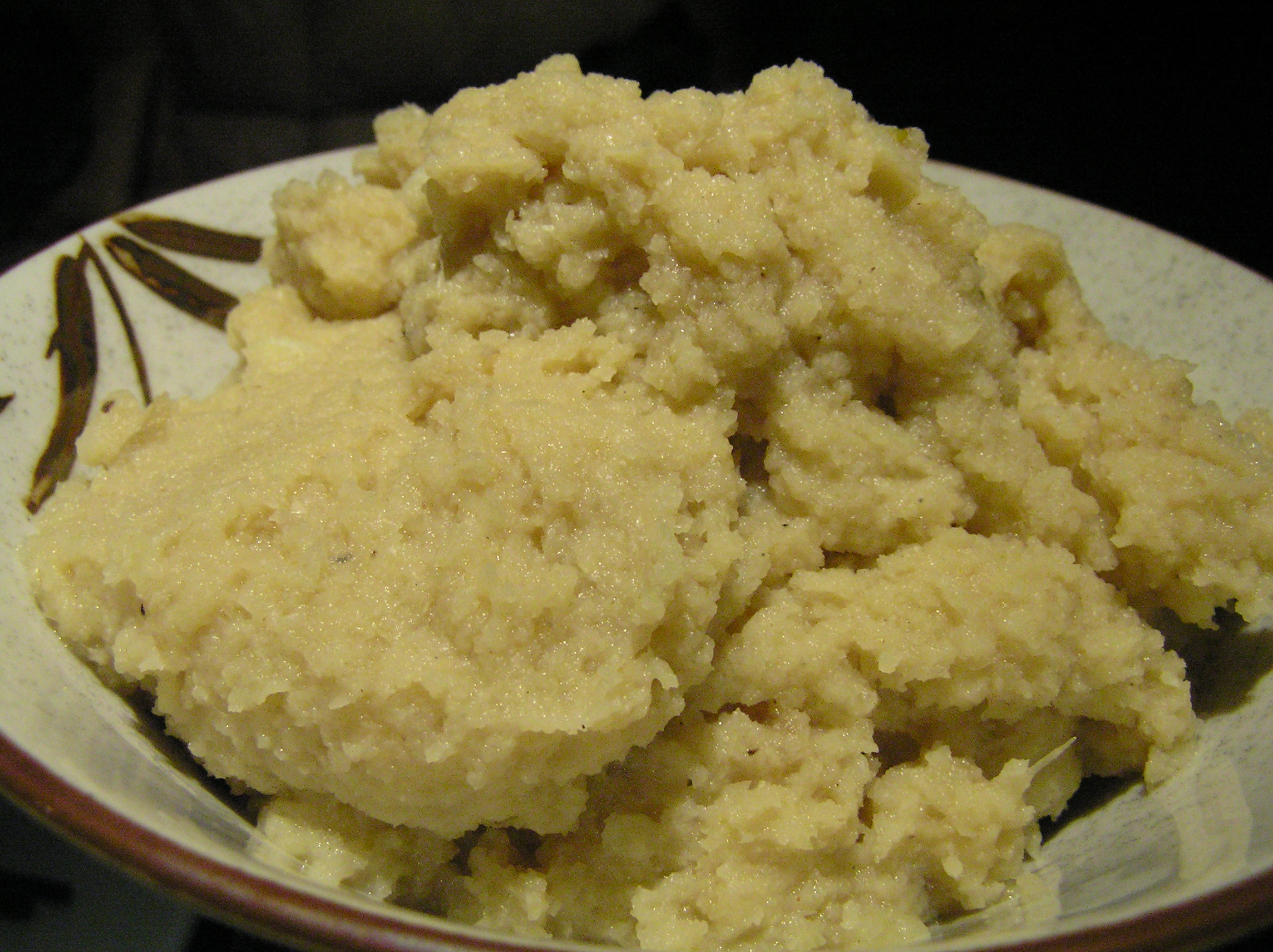 Mashed Parsnip and Cauliflower